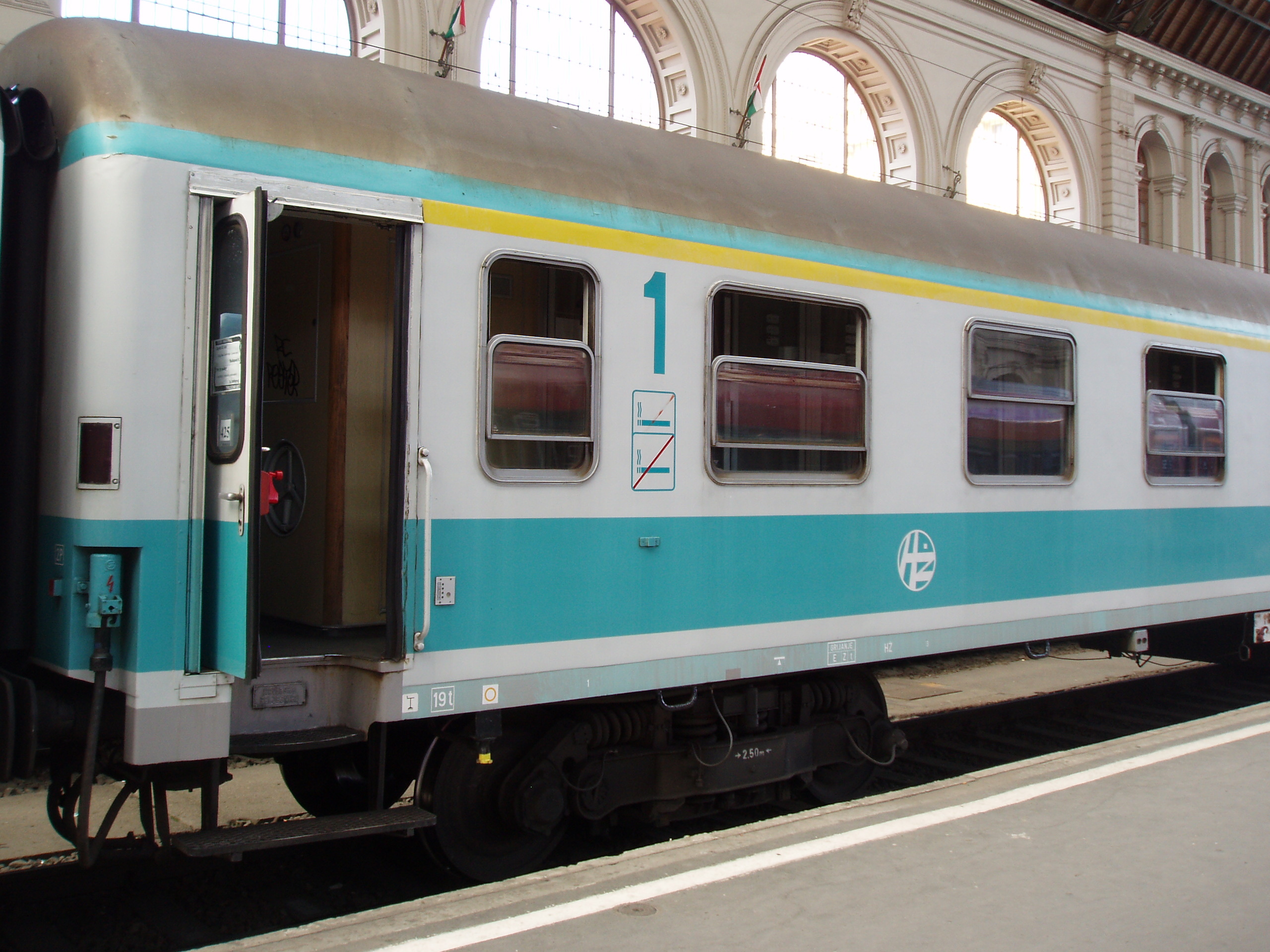 First class coach of Hrvatske željeznice (Croatian Railways) at Budapest Keleti station.